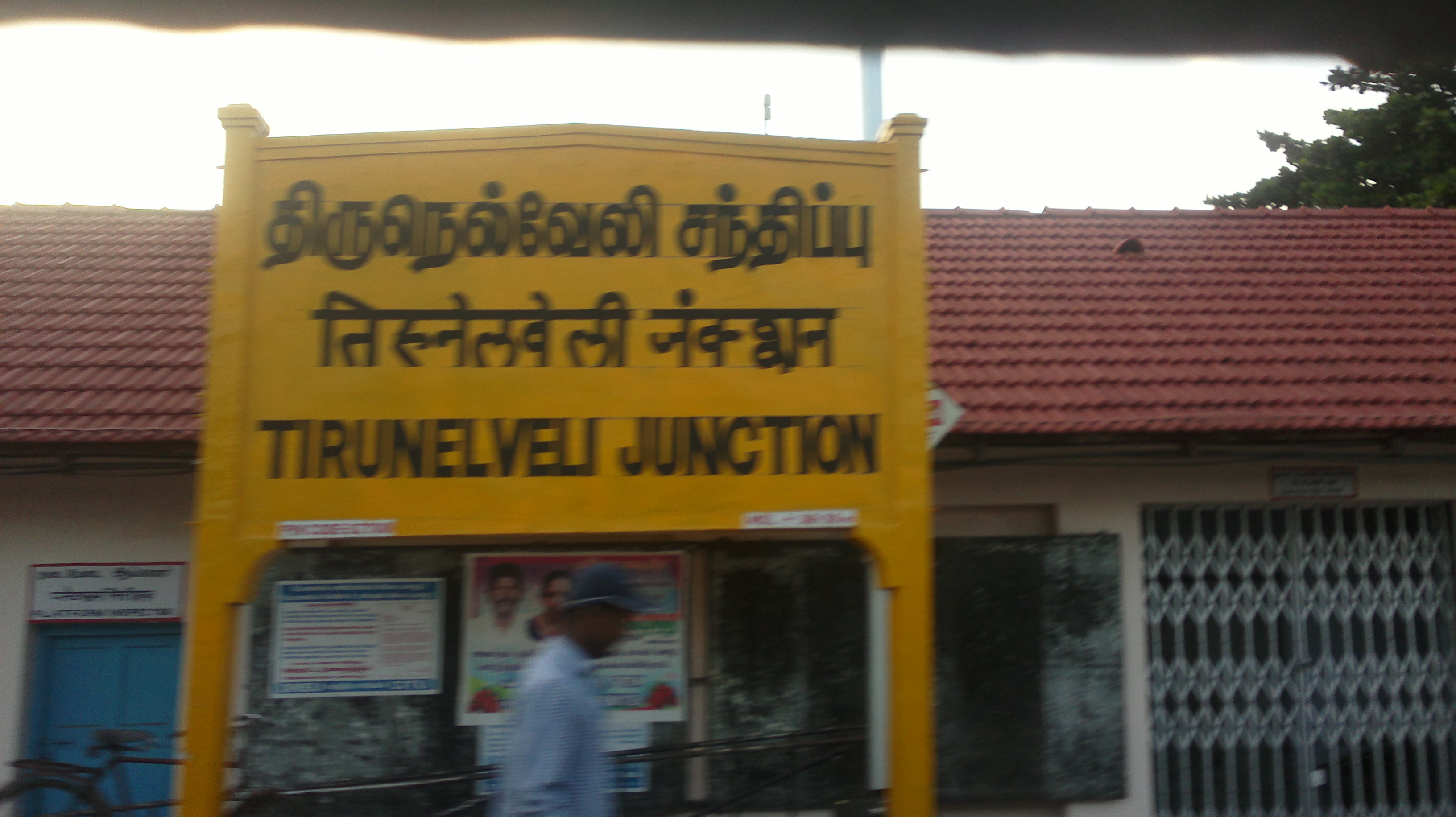 Tirunelveli junction name board